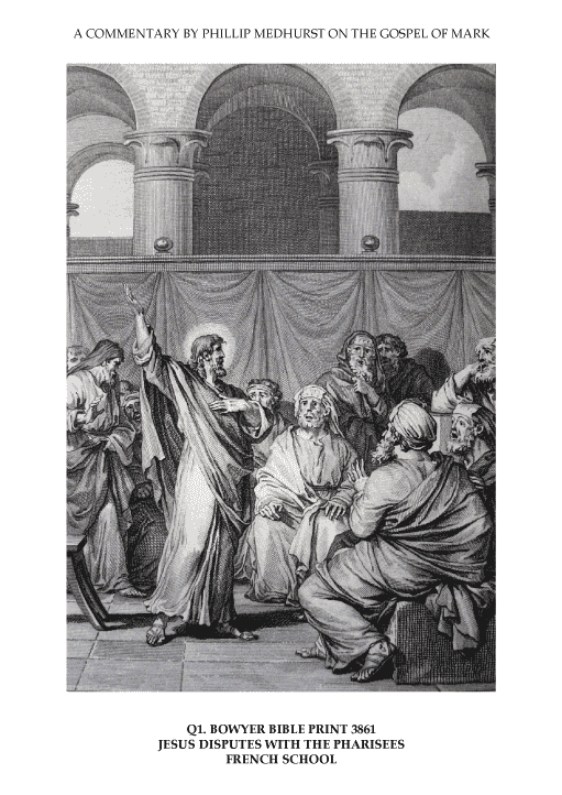 Jesus disputes with the Pharisees. French School. In the Bowyer Bible in Bolton Museum, England. Print 3861. From “An Illustrated Commentary on the Gospel of Mark” by Phillip Medhurst. Section Q. disputes with the establishment. Mark 10:2-12, 11:27-33, 12:13-27, 12:35-37.